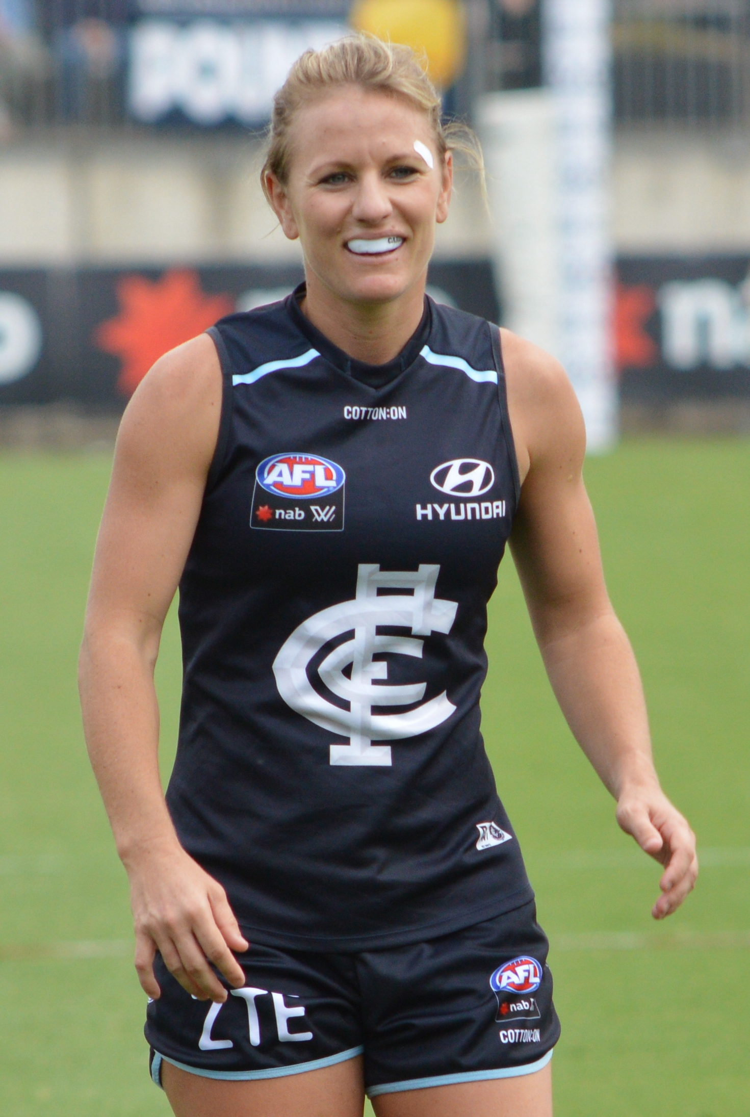 Katie Loynes during the round 6, 2018 AFL Women's match between Carlton and Melbourne.